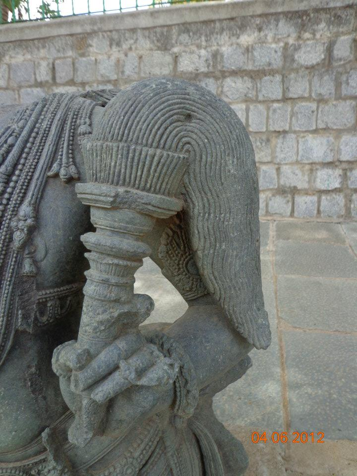 Siddhesvara Temple